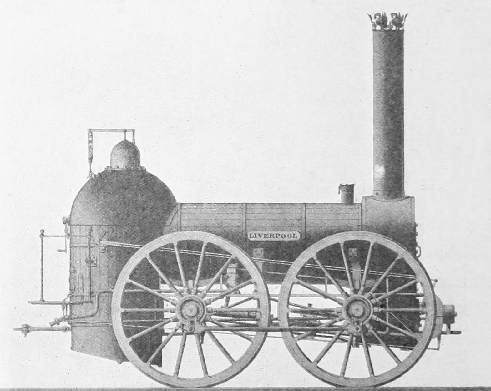 Edward Bury's 0-4-0 steam locomotive Liverpool, originally intended for the Liverpool and Manchester Railway, as rebuilt in 1830.